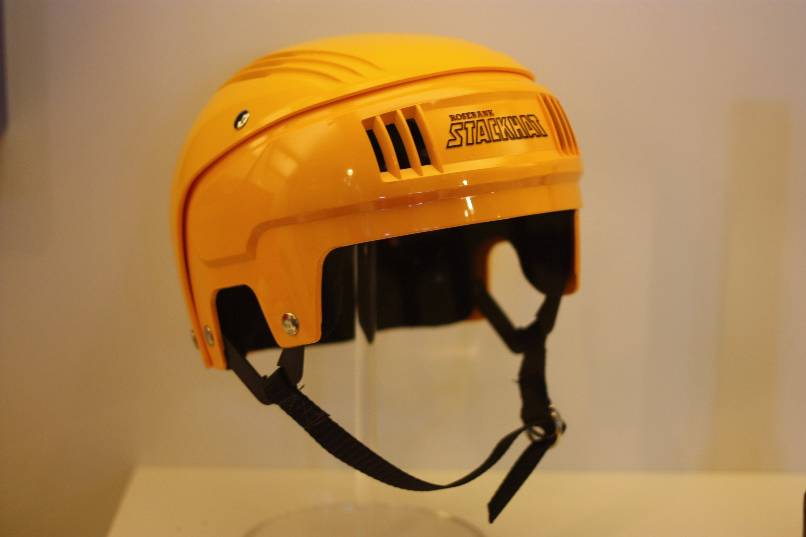 Australian Stackhat from the 80's.